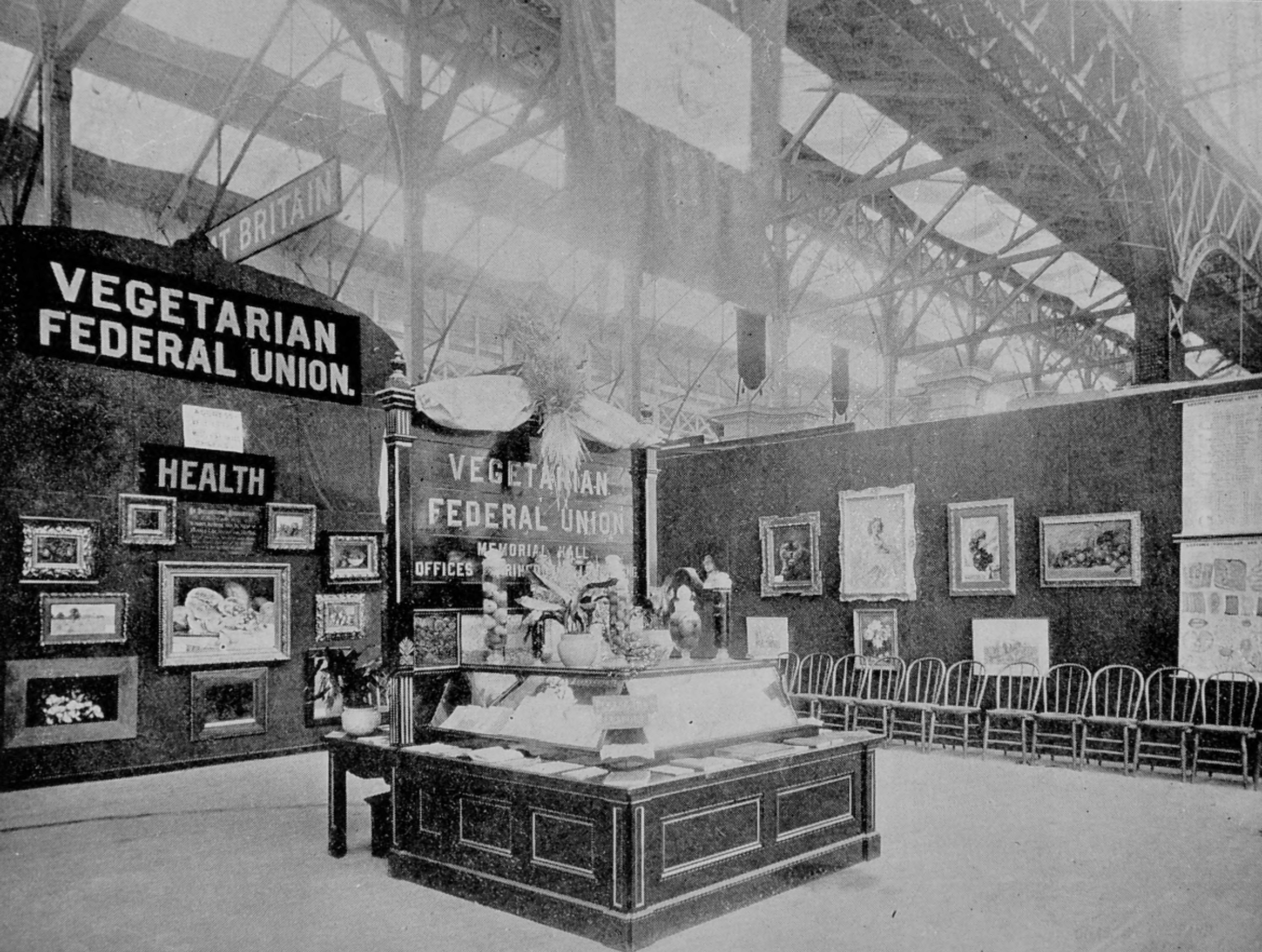 Photograph of the The Vegetarian Federal Union's Stall at the World Fair in Chicago in 1893 from Fifty Years of Food Reform: A History of the Vegetarian Movement in England